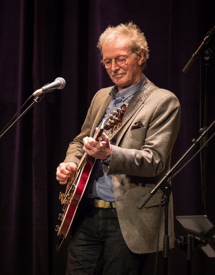 Øystein Sunde performs with Ingrid Bjørnov at the stage of Cosmopolite. The concert took place on 05. April 2017 in Oslo. The concert marked the release of her new album "Jugekors & Sørgerender".Lineup:Ingrid Bjørnov (piano)Javed Kurd (guitar)Jon-Willy Rydningen (keyboard)Rino Johannessen (bass guitar)Ole Petter Hansen Chylie (drums)Kari Slåttsveen (spoken words)Øystein Sunde (guitar)